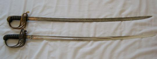 A picture by Epeeist Smudge of swords in his collection